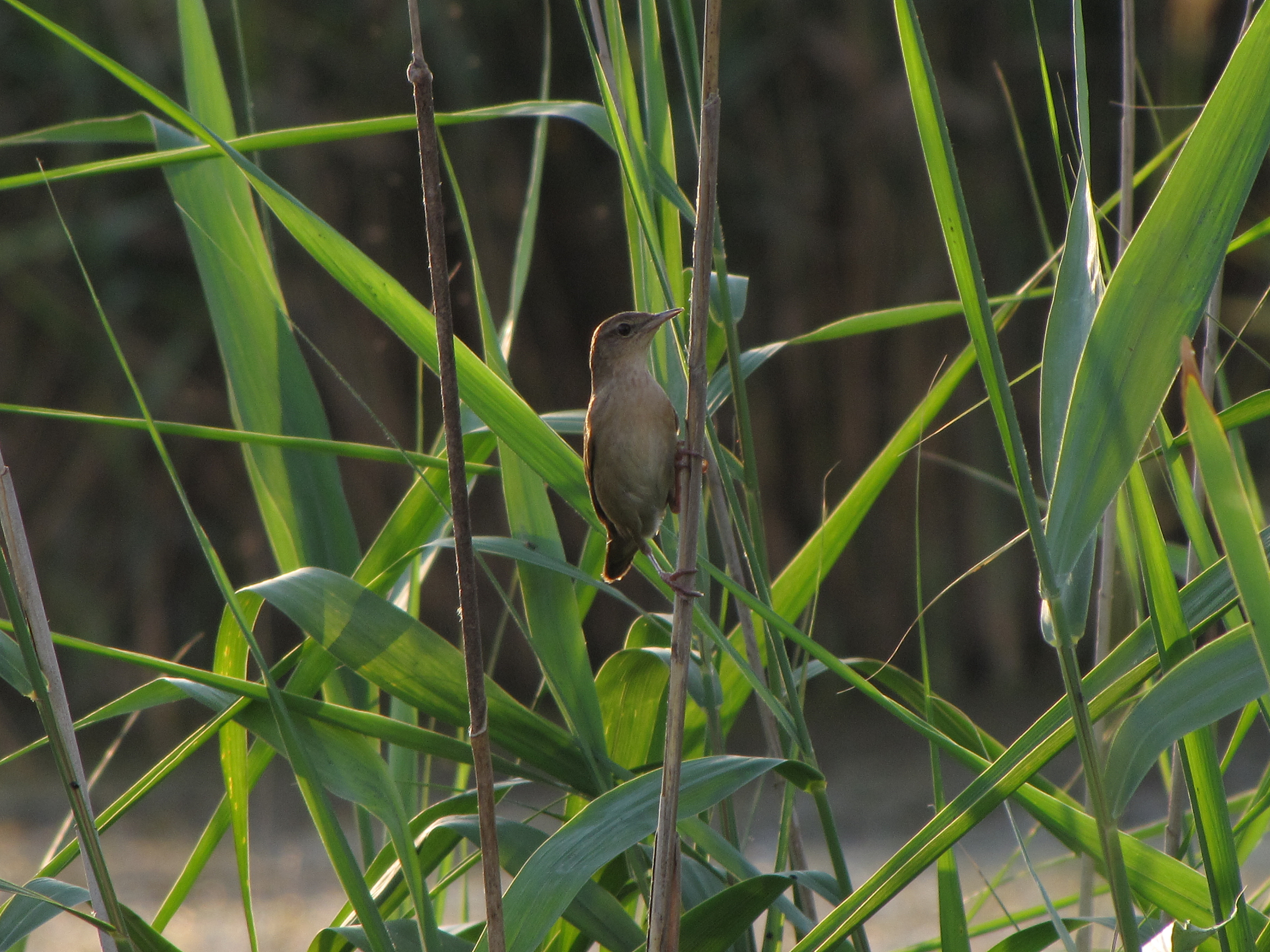 Savi's Warbler Locustella luscinioides, Serbia